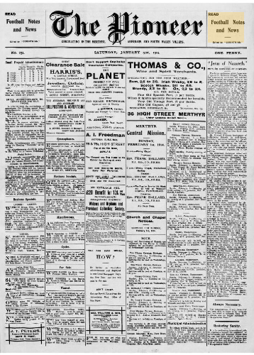 Cover page of the Merthyr Pioneer